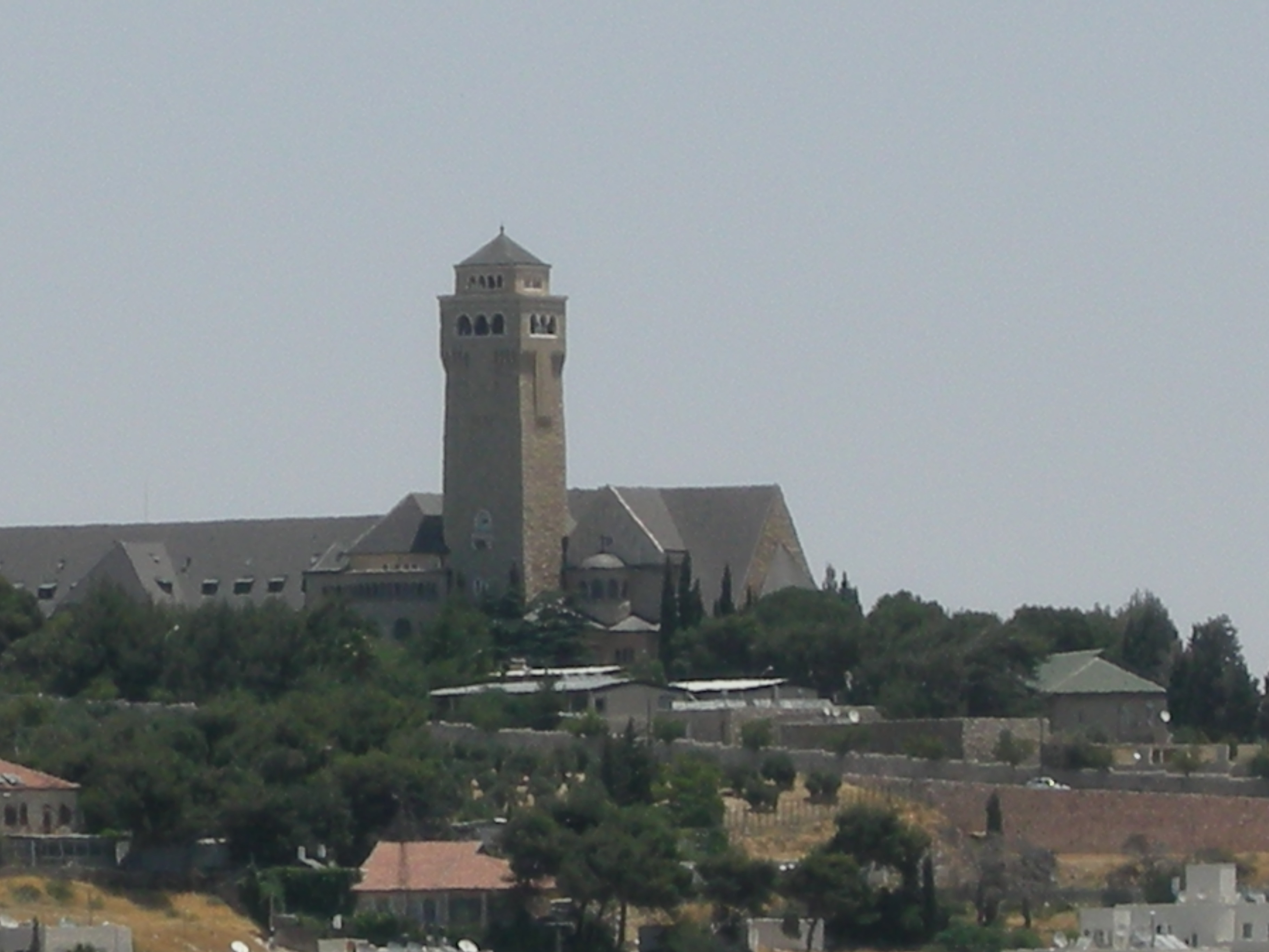 Siur_wikipedia_in__Jerusalem